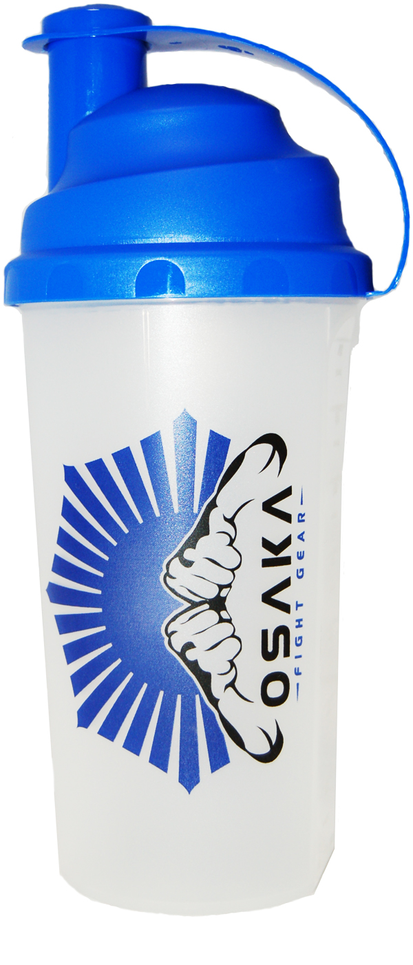 Image of a typical Shaker Bottle used to mix and consume sports / bodybuilding supplements and protein shakes